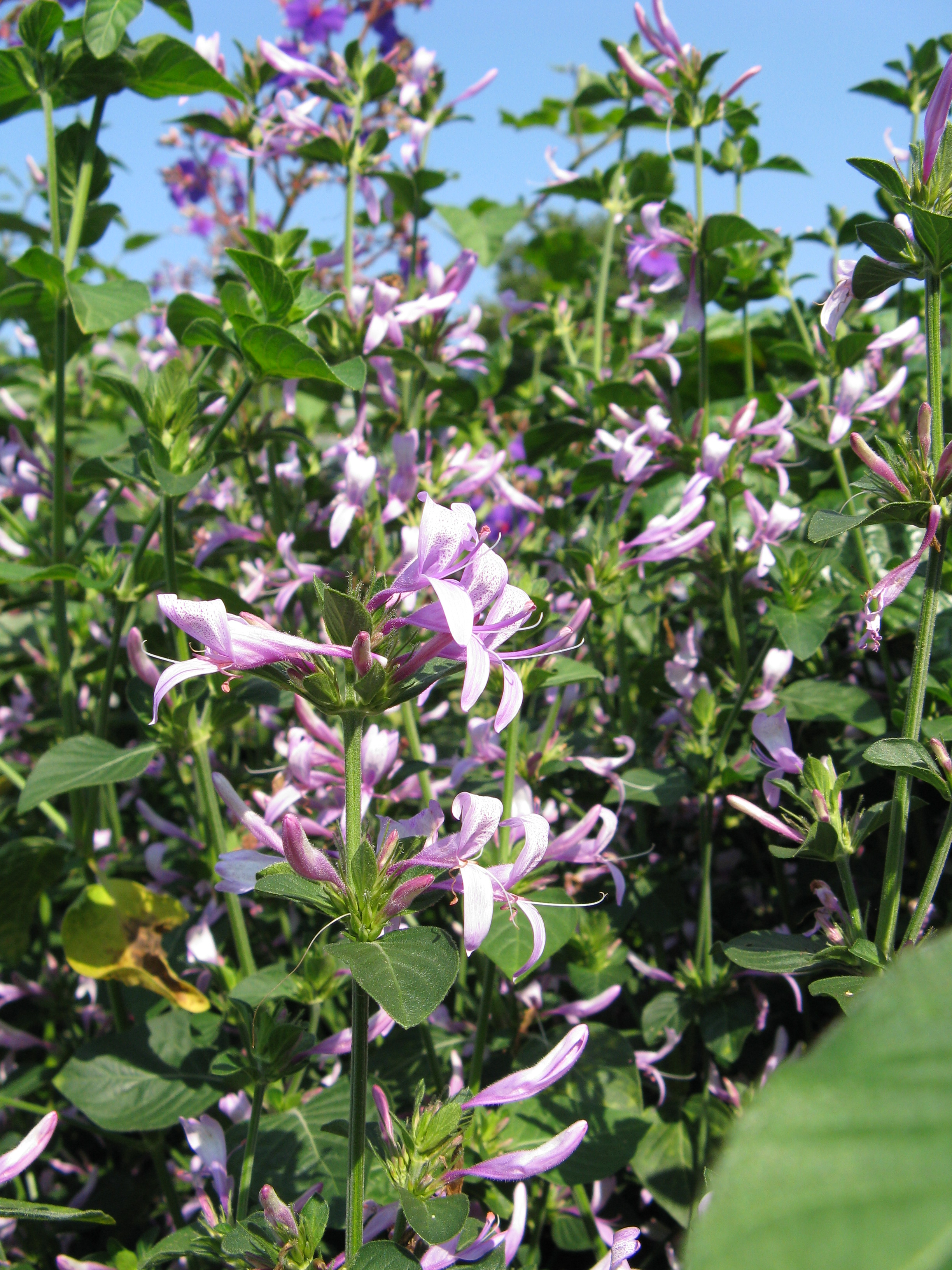 Ribbon Bush, Acanthus family, in Osaka, Japan IsiZulu: idolo-lenkonyane-elimhlophe